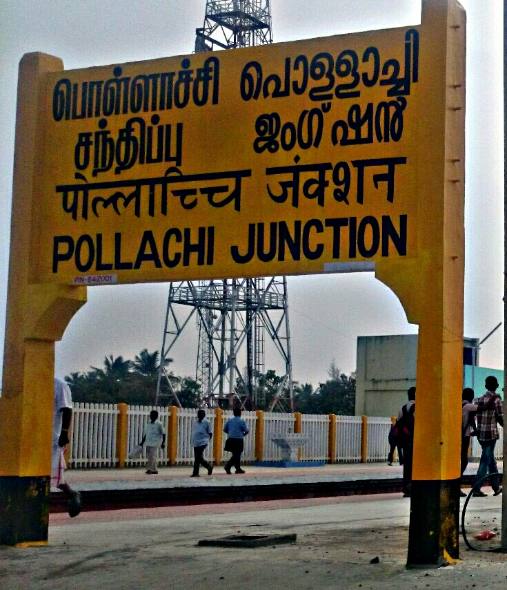 Name Board sign in the Pollachi junction railway station.